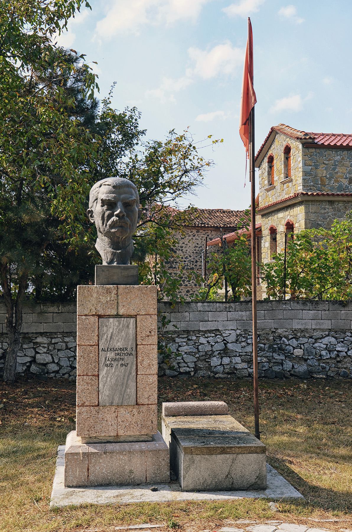 The grave of Asdreni in Drenovë, Albania